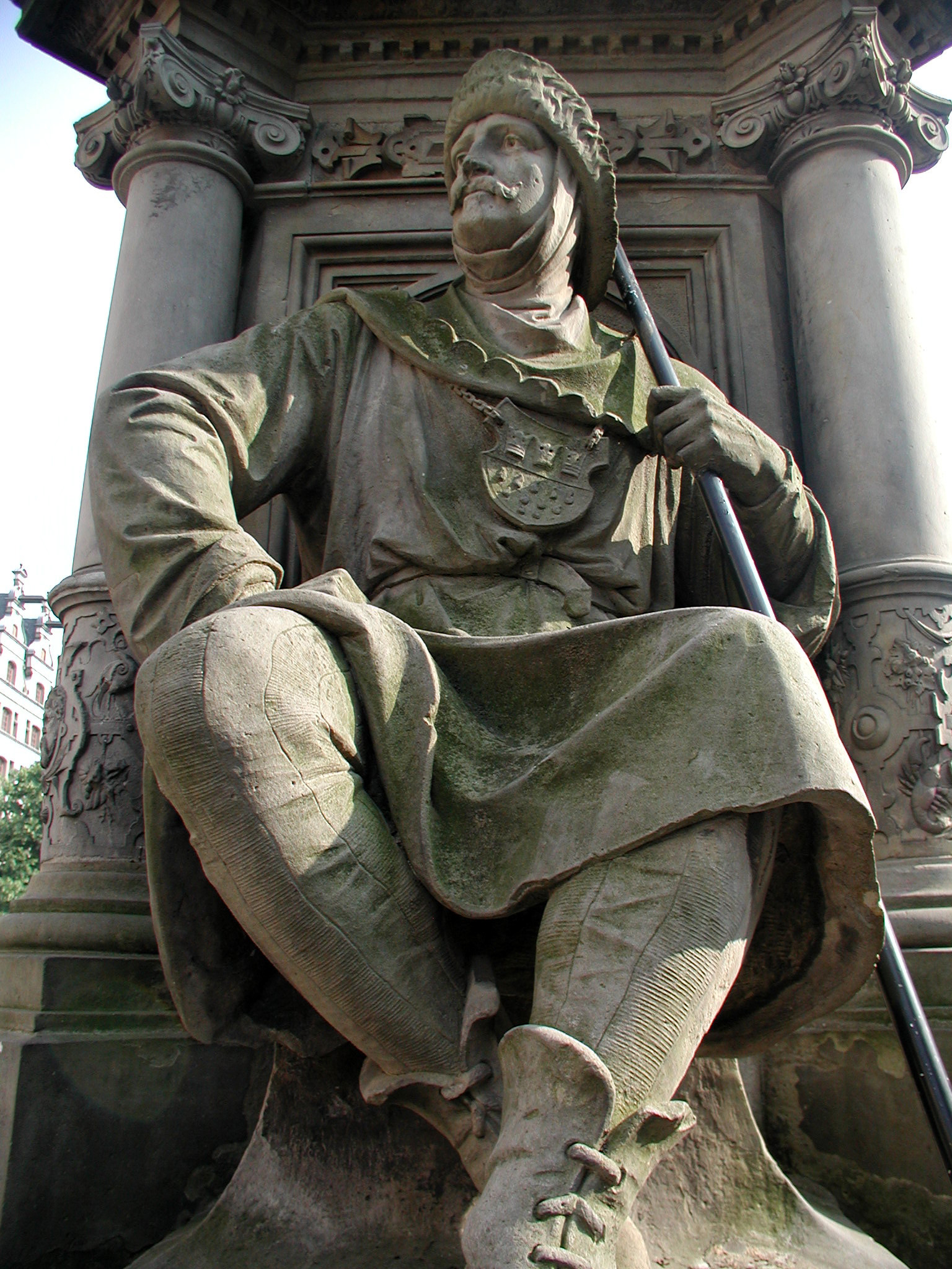 Cologne - fountain (Detail) Jan von Werth, Alter Markt